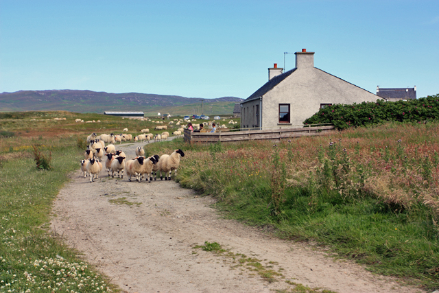 Towards Kintra Farm Kintra is a working hill farm that also has camping faciltiies. They keep sheep! for information.